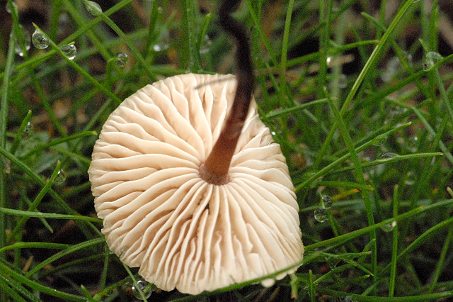 Marasmius scorodonius from Commanster, Belgium. The determination of the species shown in this picture has been verified.